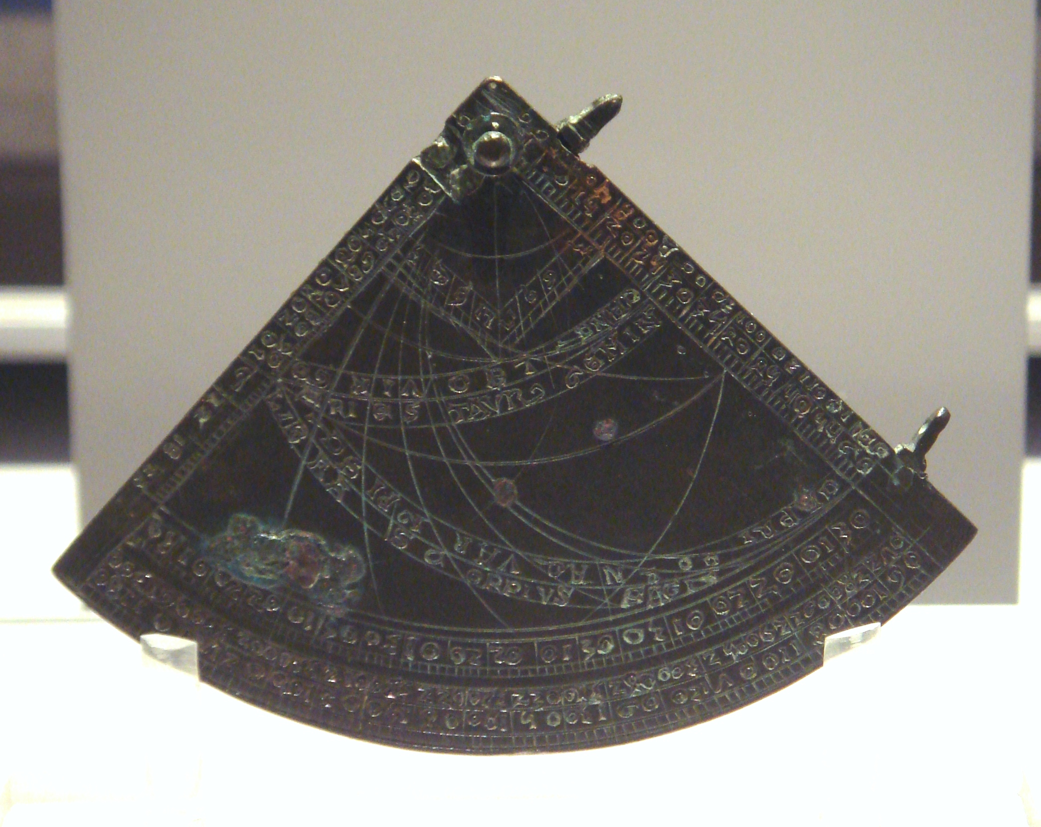 Astrolabe_quadrant_England_1388, photographed at the British Museum